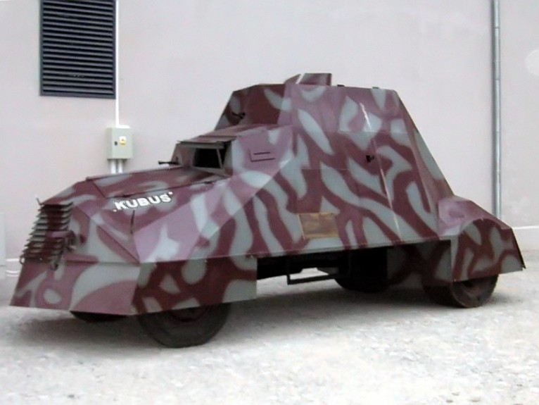 Polish WWII APC/AC Kubuś replica